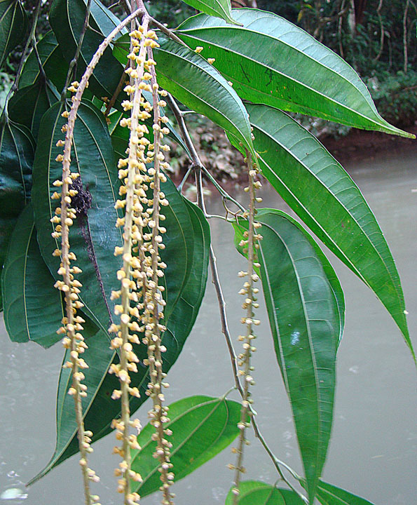 Of the Salicaceae. Native from Nicaragua to Bolivia. Photo from southeastern Nicaragua.